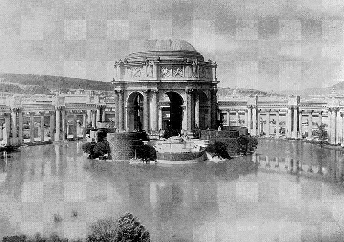 The Palace of Fine Arts at the 1915 Panama-Pacific Exposition.